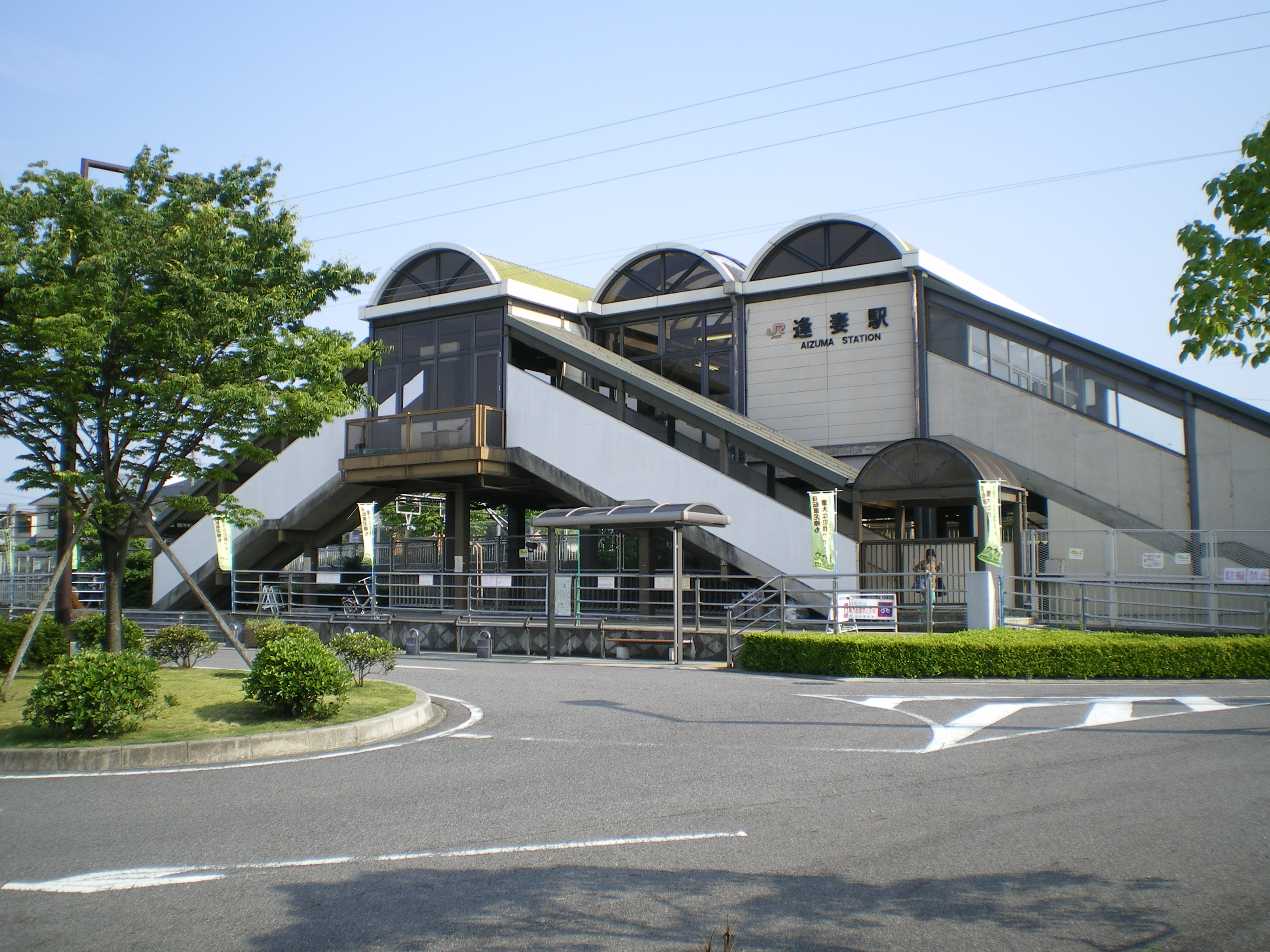 Central Japan Railway Tōkaidō Main Line Aizuma Station North Gate